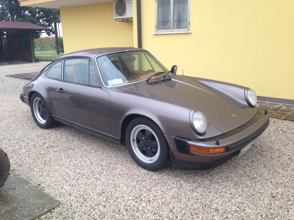 Porsche 911 Carrera 3.0 1976